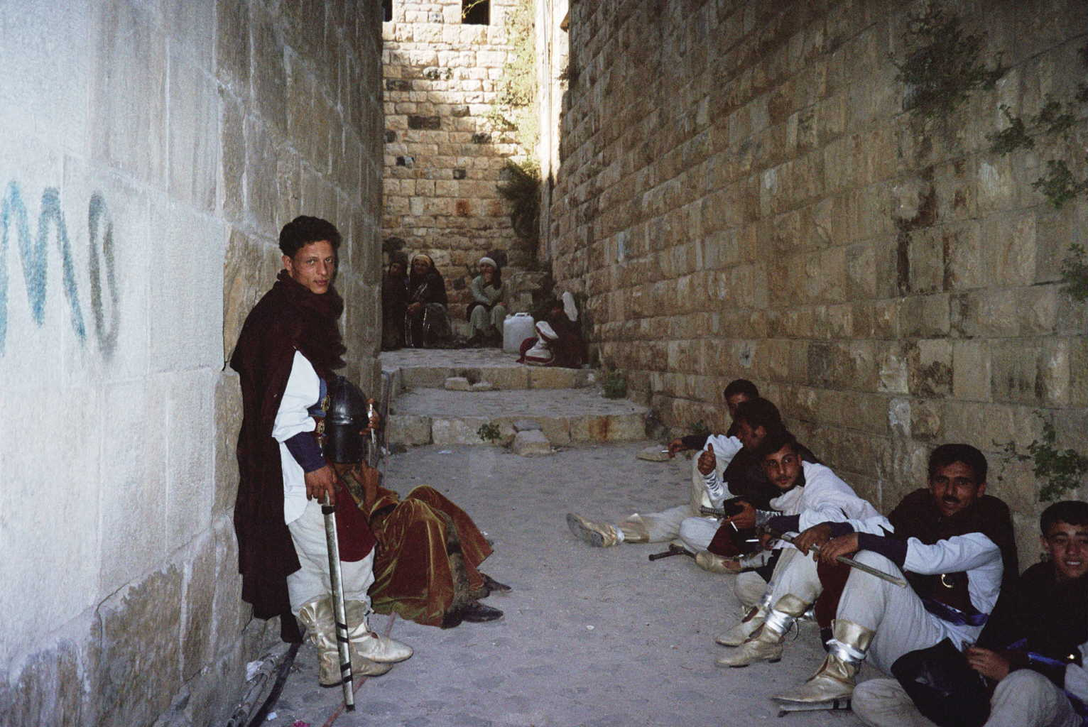 as we wandered the castle there were parts that were filled with bored extras hanging out in the passageways